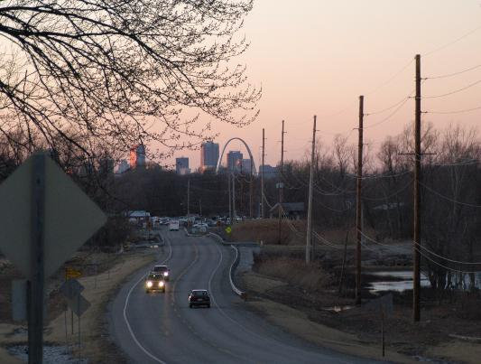 Illinois Route 163 and the St. Louis skyline as viewed from north of Millstadt, Illinois, February 2004.